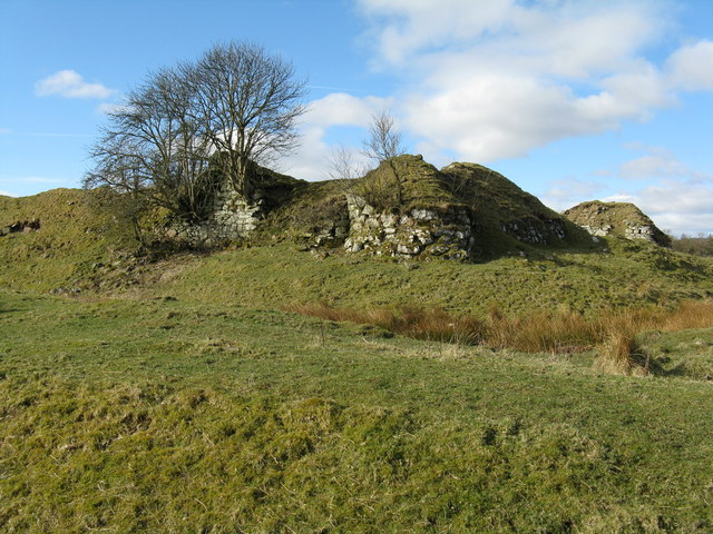 Auchen Castle Substantial ruins of a castle reported to have been built around 1220, for Sir Humphrey de Kirkpatrick